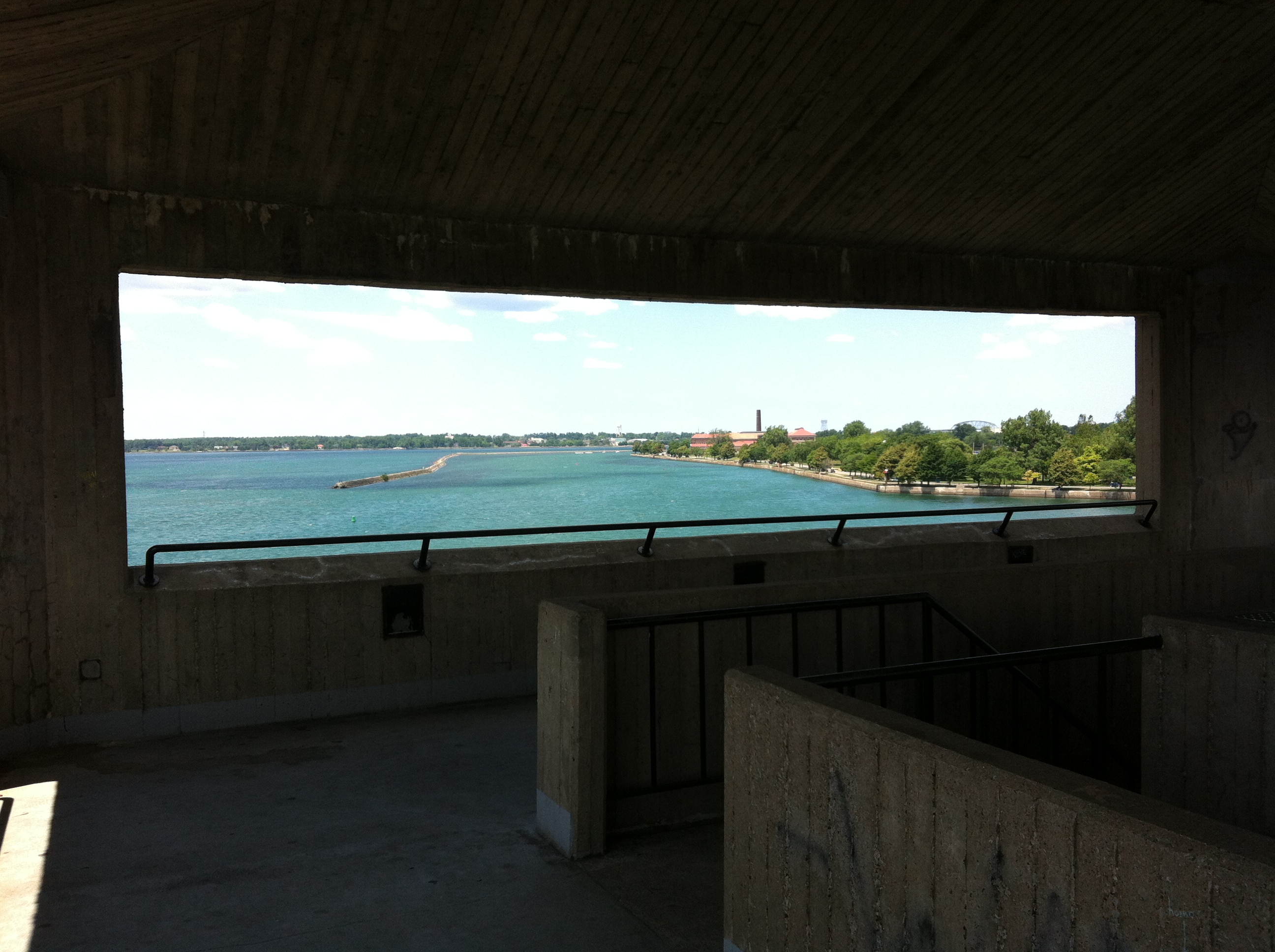 Inside the observatory at Erie Basin Marina